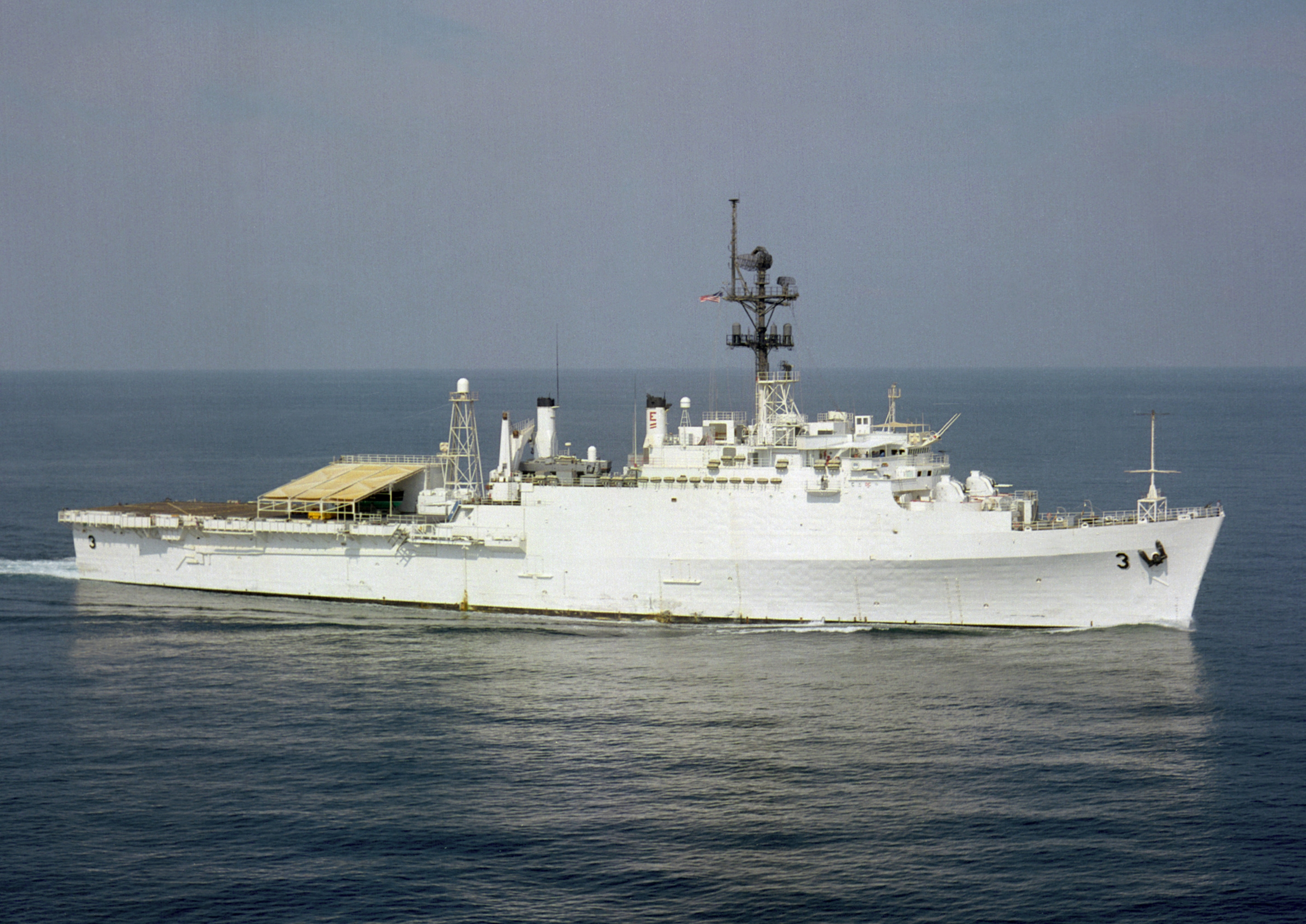 The U.S. Navy command ship USS La Salle (AGF-3) underway in the Persian Gulf during operation "Desert Shield".